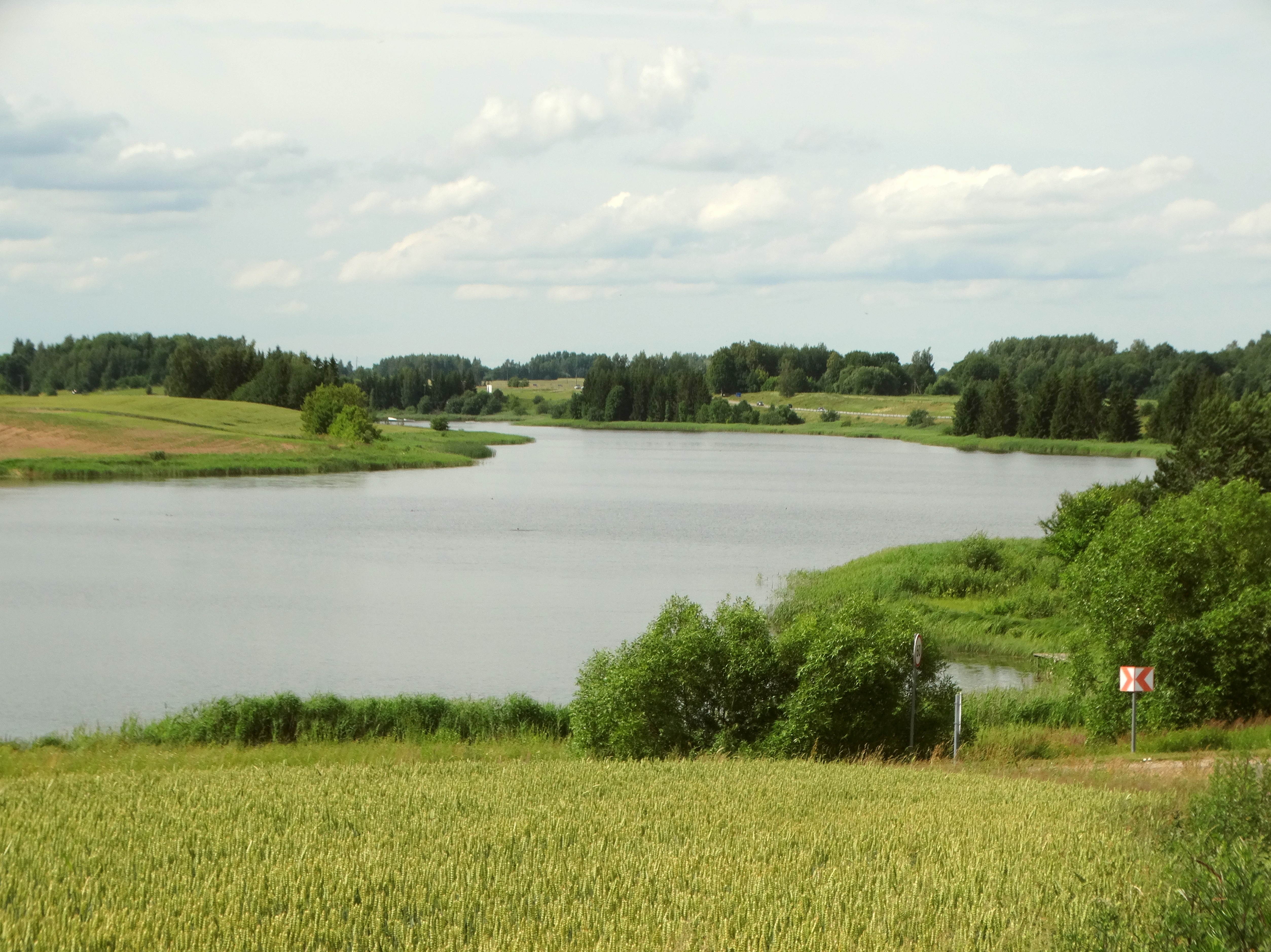 Pond in Pagojė, Anykščiai District, Lithuania